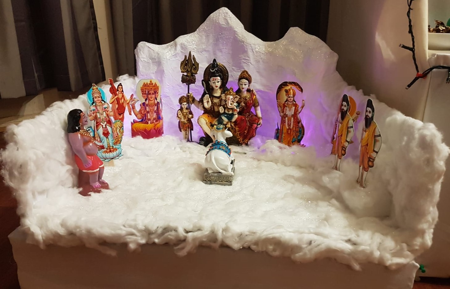 Kailayam set-up in Golu Australia